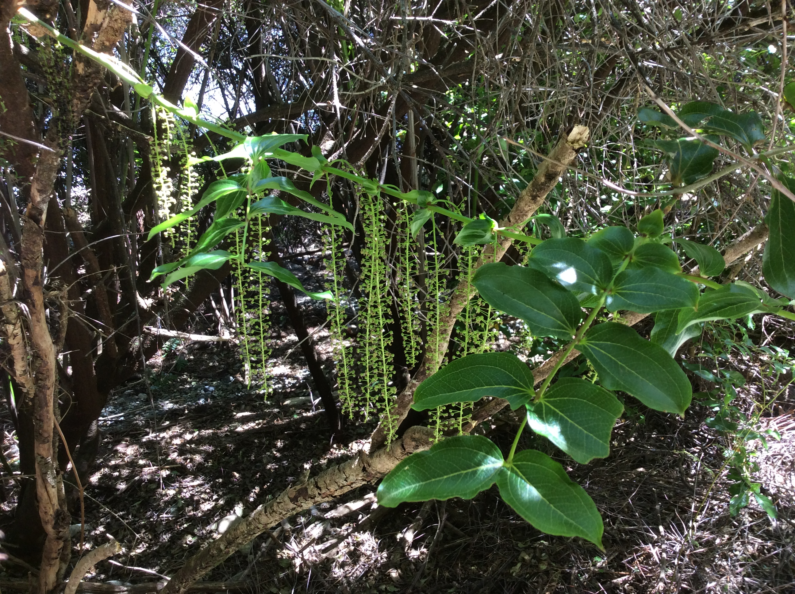 Tree tutu (Coriaria arborea), an endemic poisonous plant of New Zealand. Near Te Anau, South Island, NZ